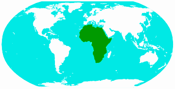 Locator map of the African continent (no islands)